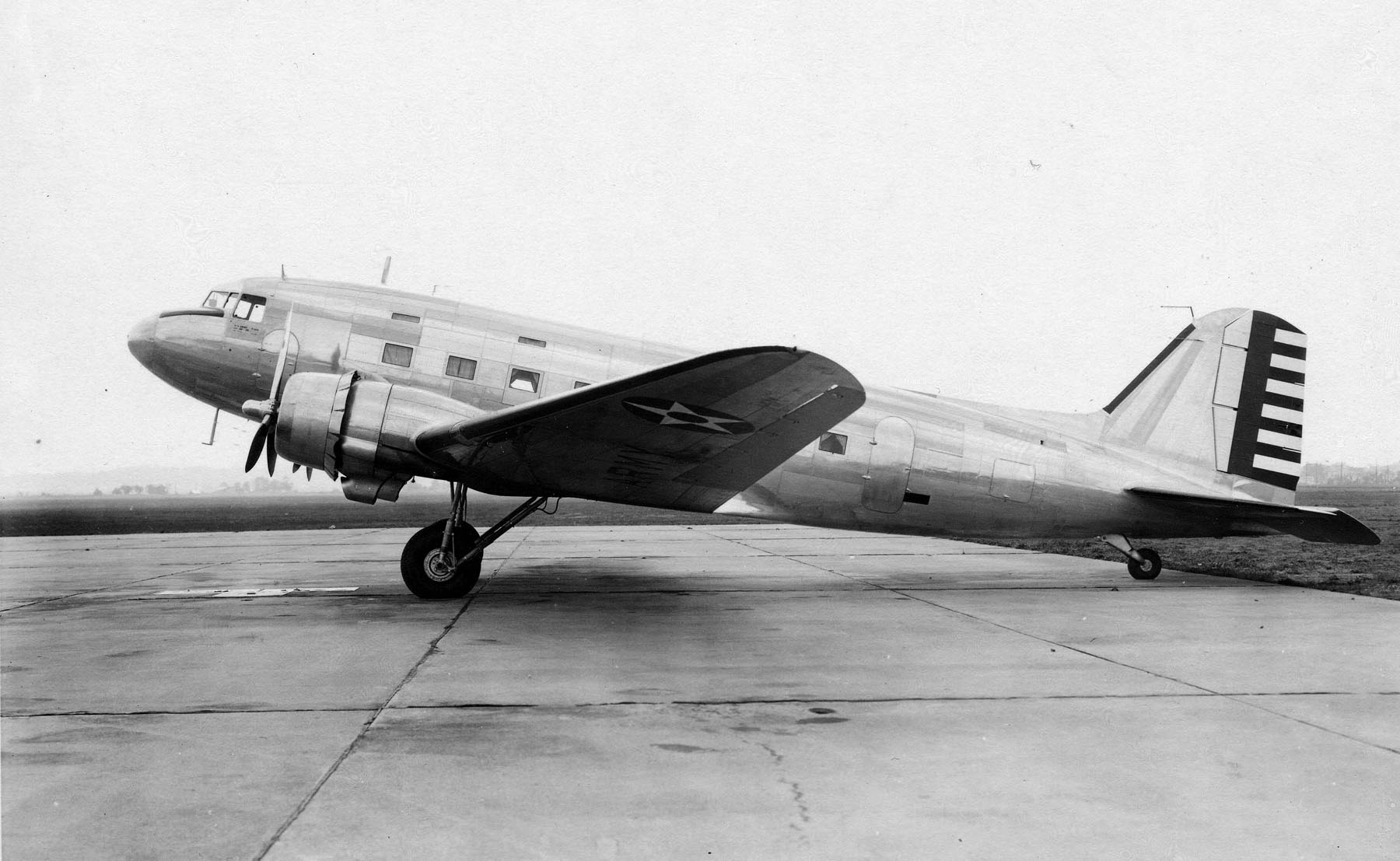 Douglas C-41A (DC-3) transport.